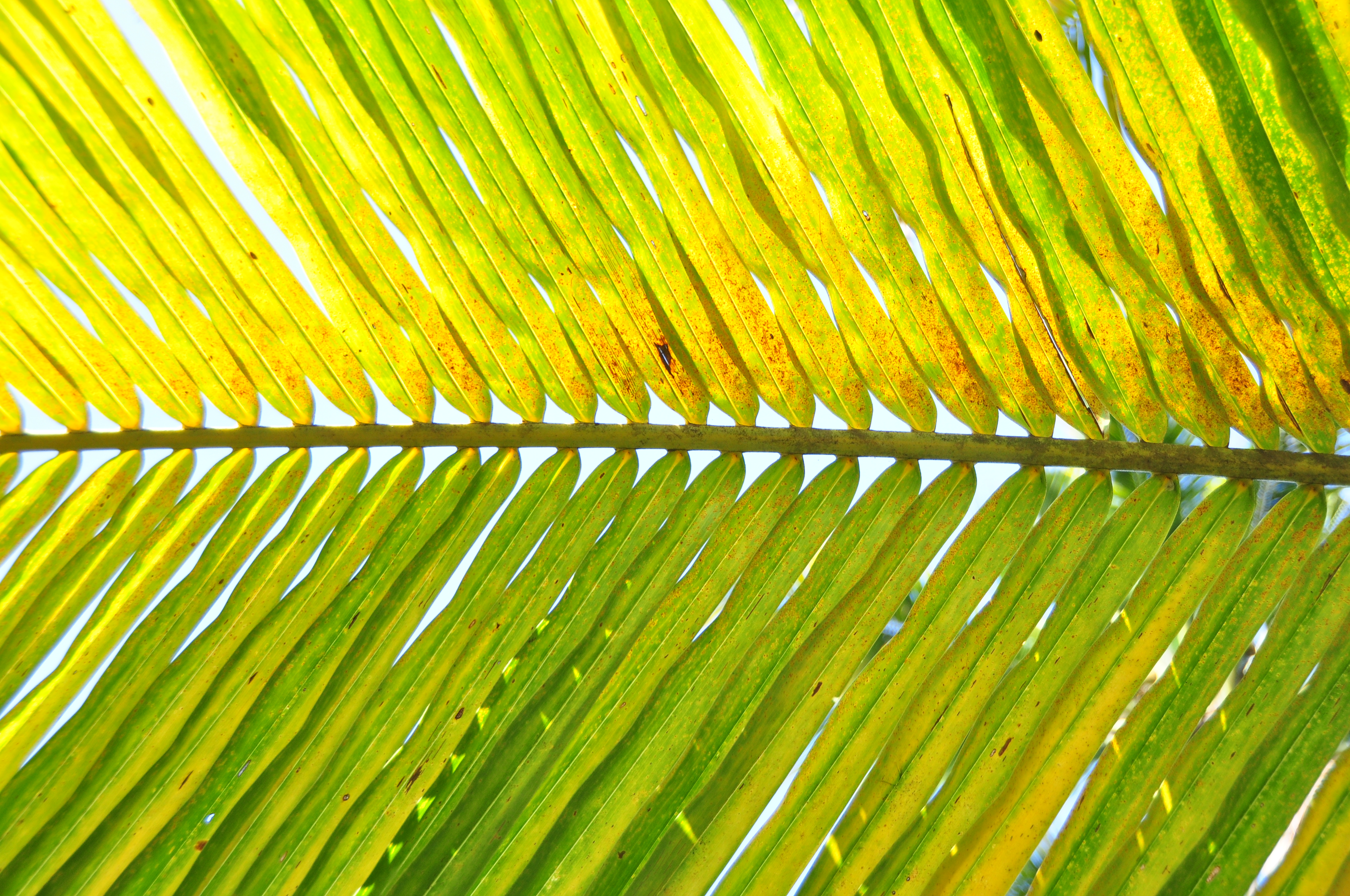 due to insect attack the leaves of the coconut turns yellow prematurely